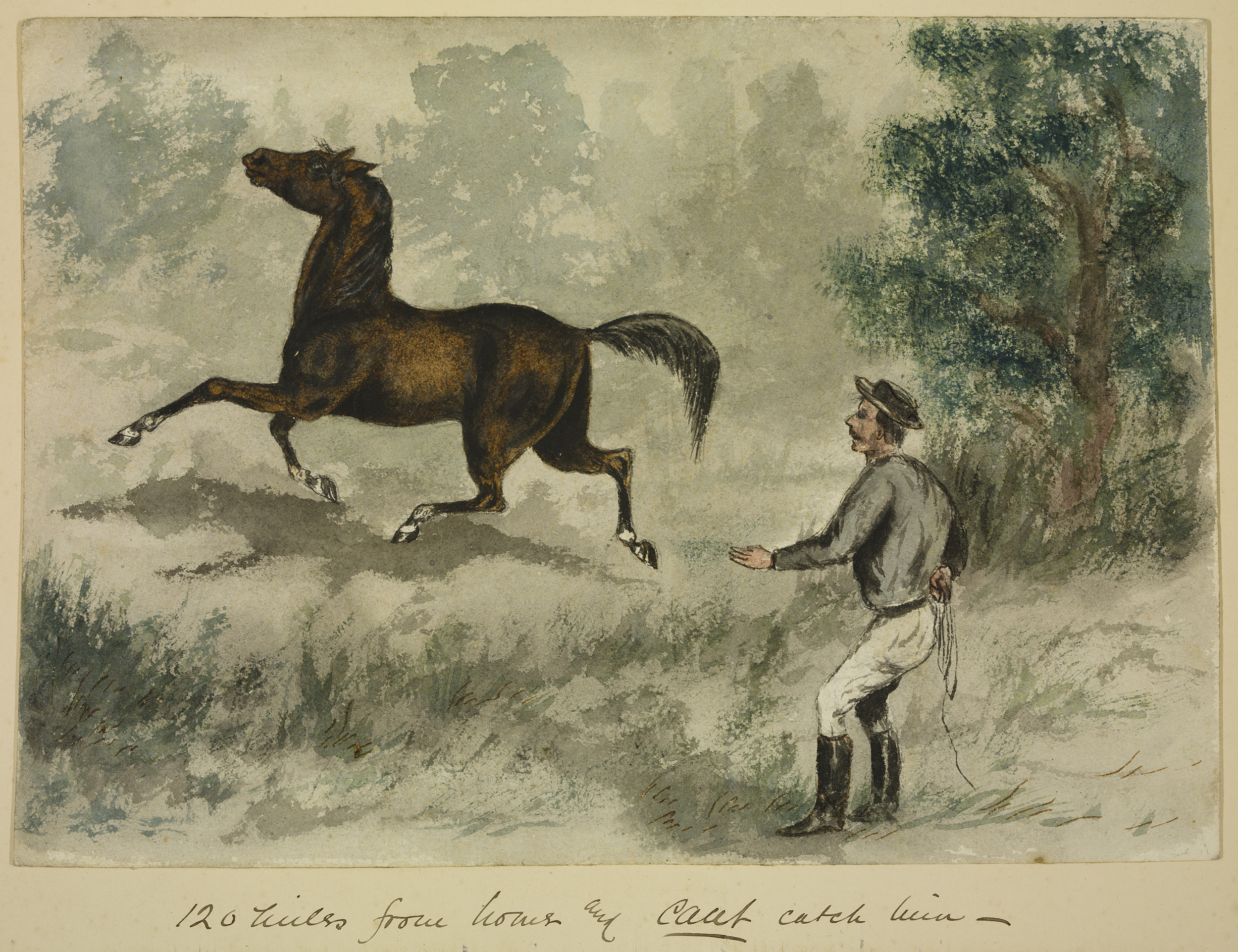 No known copyright restrictions. Please credit UBC Library as the image source. For more information, see Creator: Bullock-Webster, Harry, 1855-1942 Date Created: [between 1874 and 1880?] Source: Original Format: University of British Columbia. Library. Rare Books and Special Collections. Sketches of Hudson Bay life by H. Bullock Webster 1874-1880 Permanent URL